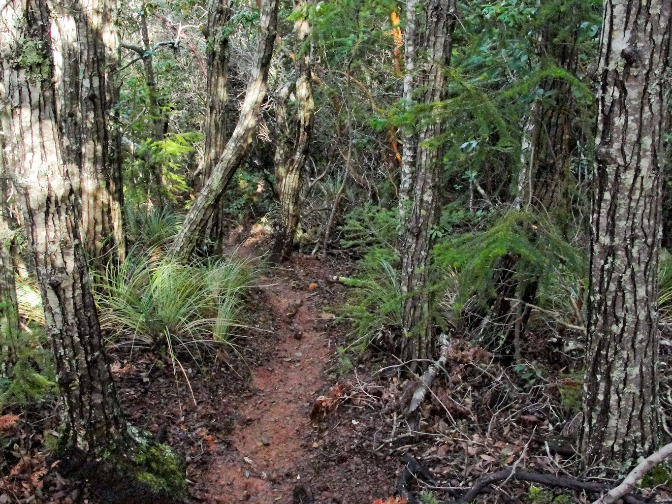 Giant chiquapin (Chrysolepis chrysophylla) forest on Mount Tamalpais Kent Trail